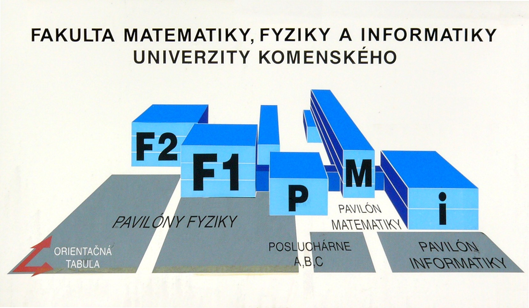 Buildings of FMFI UK, Bratislava, July 2008